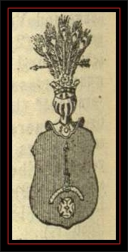 The image of the coat of arms from 1900 Gnieszawa